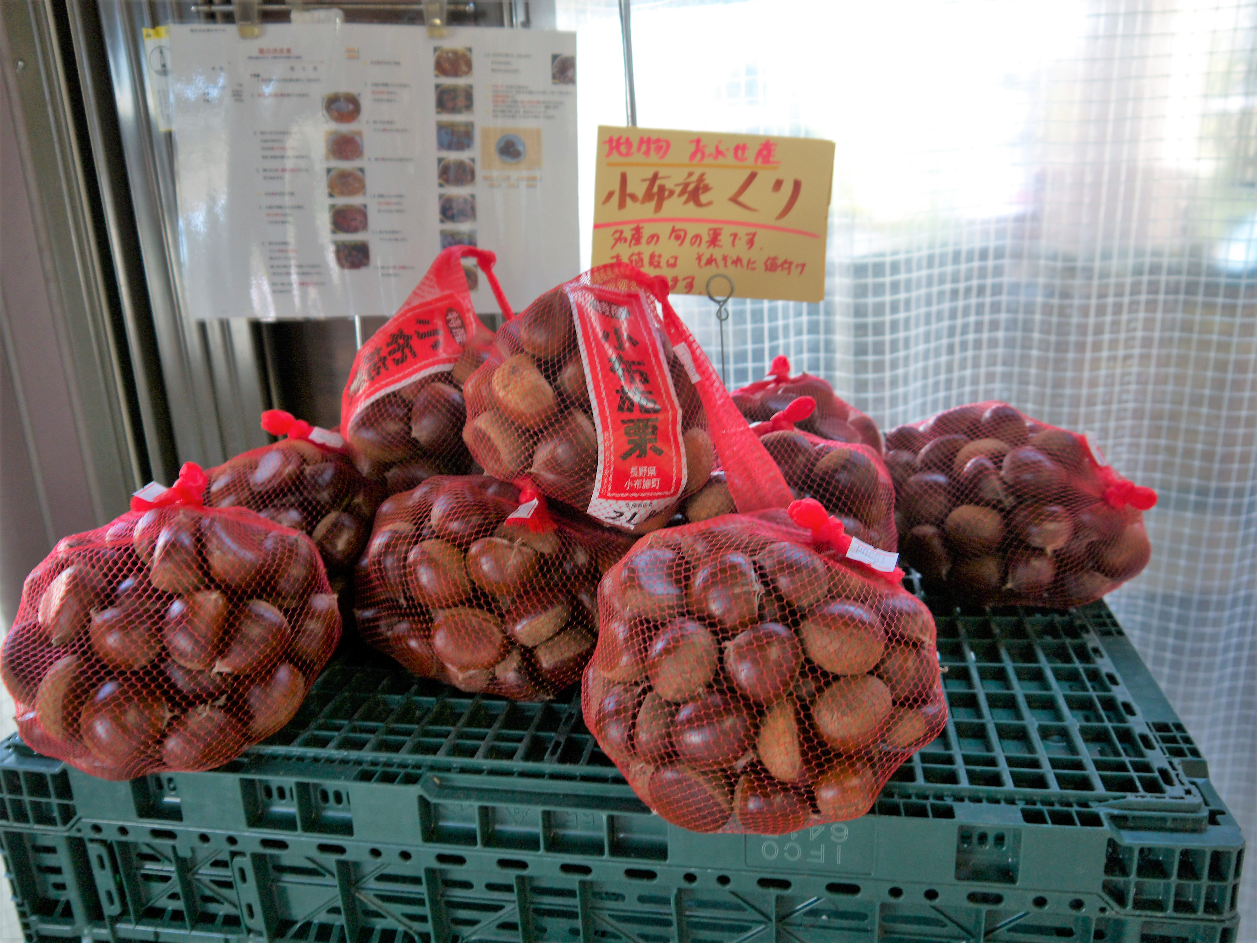 Chestnut Obuse City, Nagano Prefecture